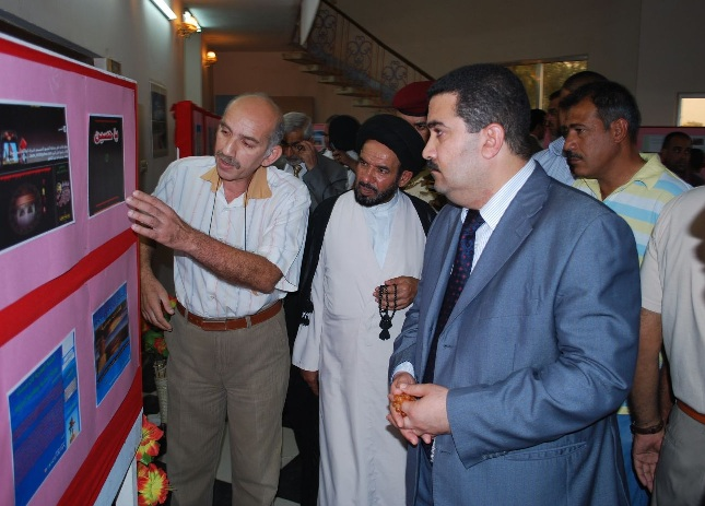 Sudani as Maysan governor in 2010